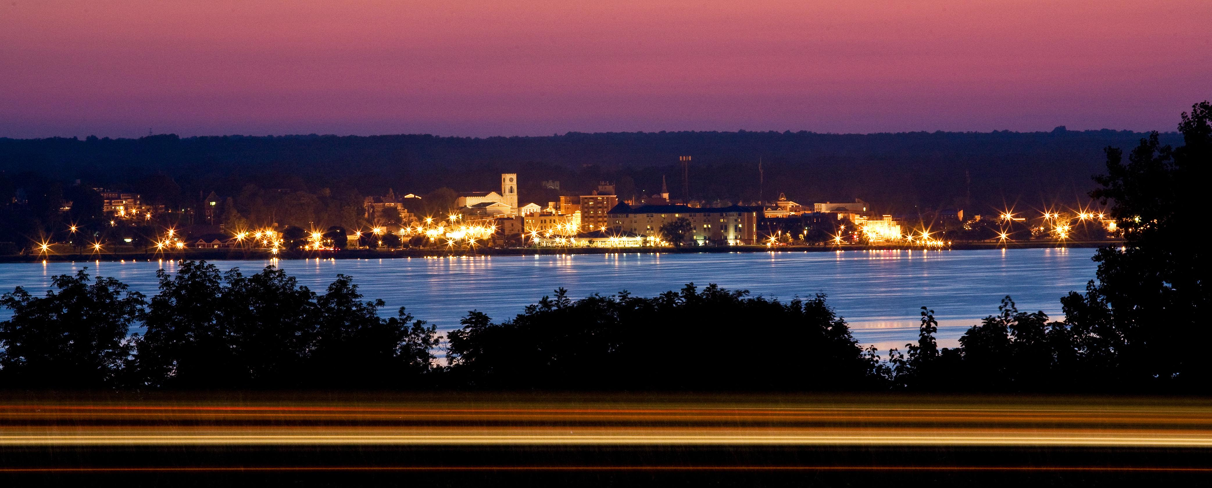 Geneva, New York skyline, 2011.